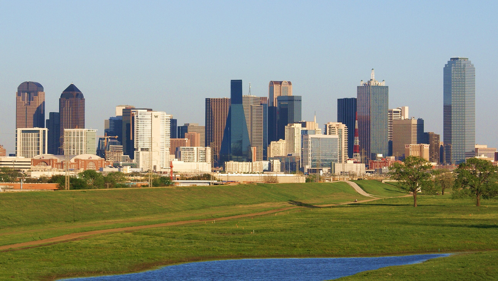 Downtown Dallas in the background with the Trinity River in the foreground. Taken from the N Hampton Rd bridge.